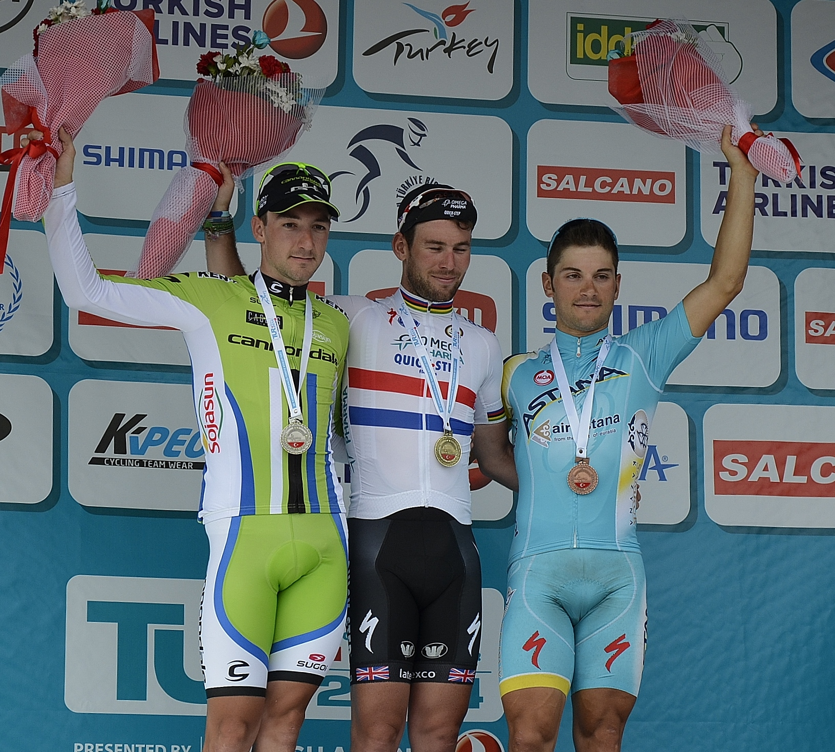 Elia Viviani Mark Cavendis, Andrea Guardini (from left to right) at Tour of Turkey Stage 8